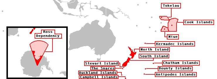 Realm of New Zealand. For context in full world map, see Image:NZ Realm of New Zealand.png.